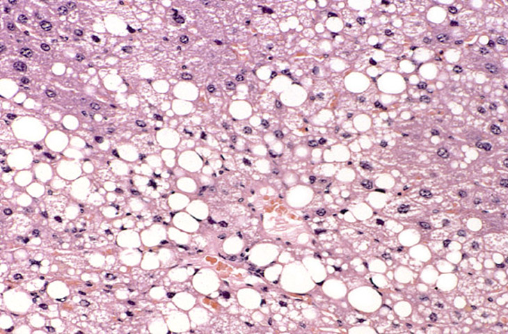 Histological section of a murine liver showing severe steatosis. The clear vacuoles would have contained lipid in the living cells, however the histological fixation caused it to be dissolved and hence only empty spaces remain.